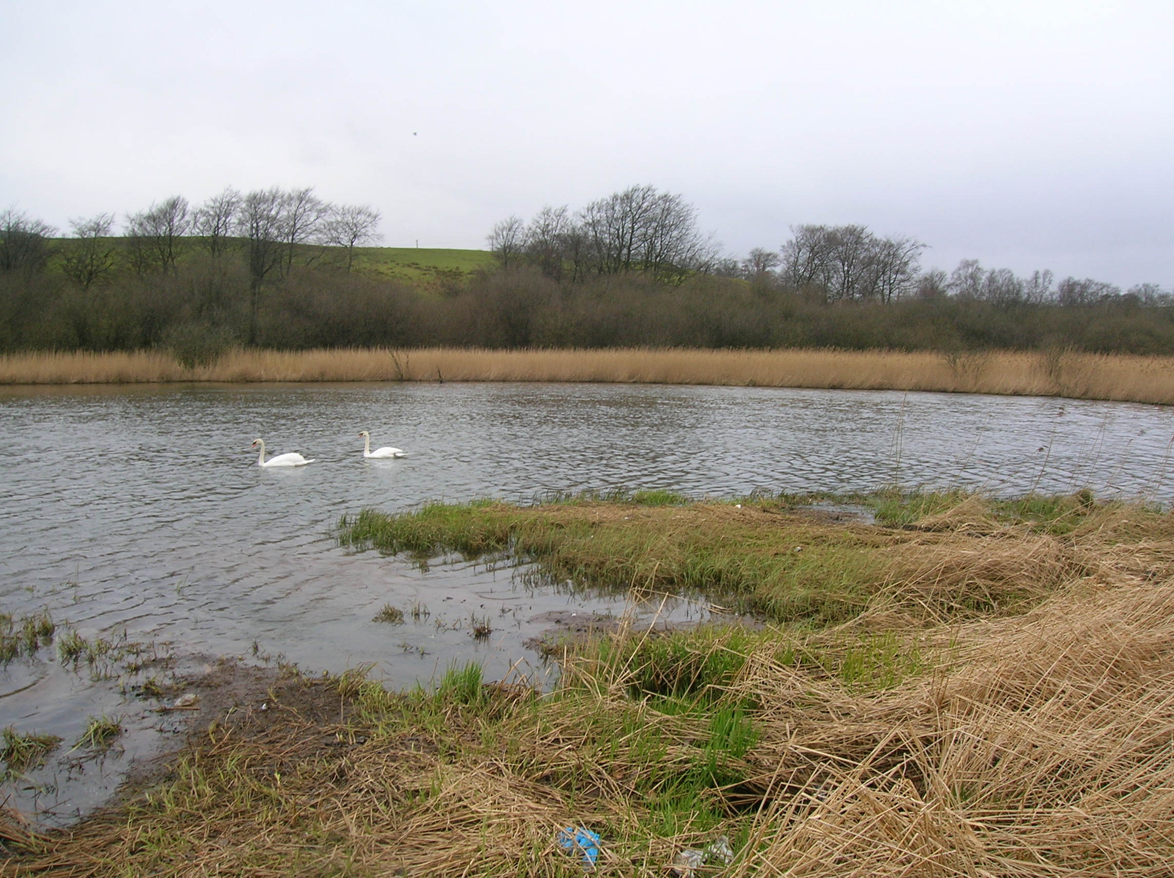 North end, west bank, Lochend Farm, Blae Loch, Hessilhead, Beith, North Ayrshire, Scotland.